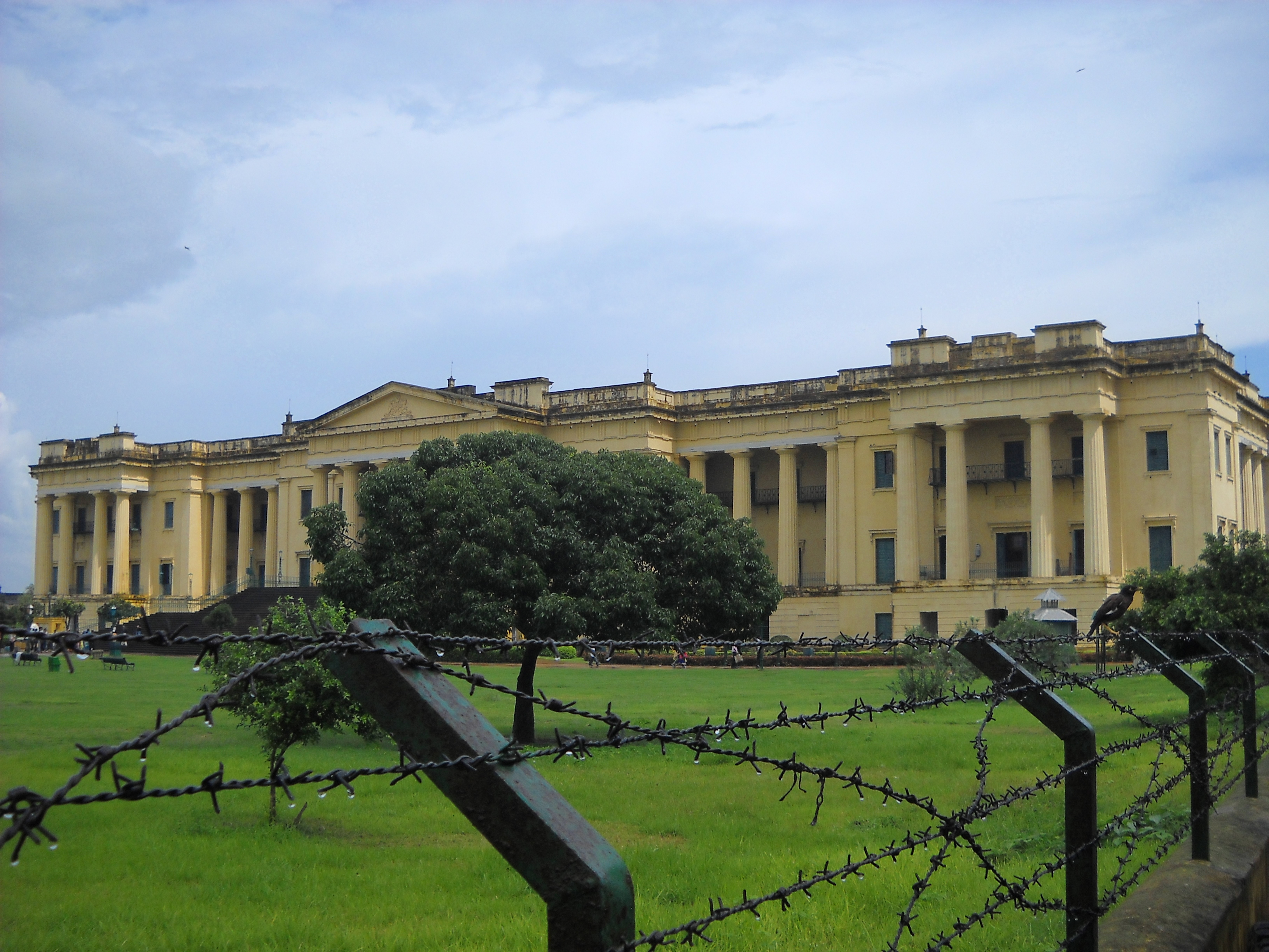 Hazarduari Palace & Imambara (Murshidabad)